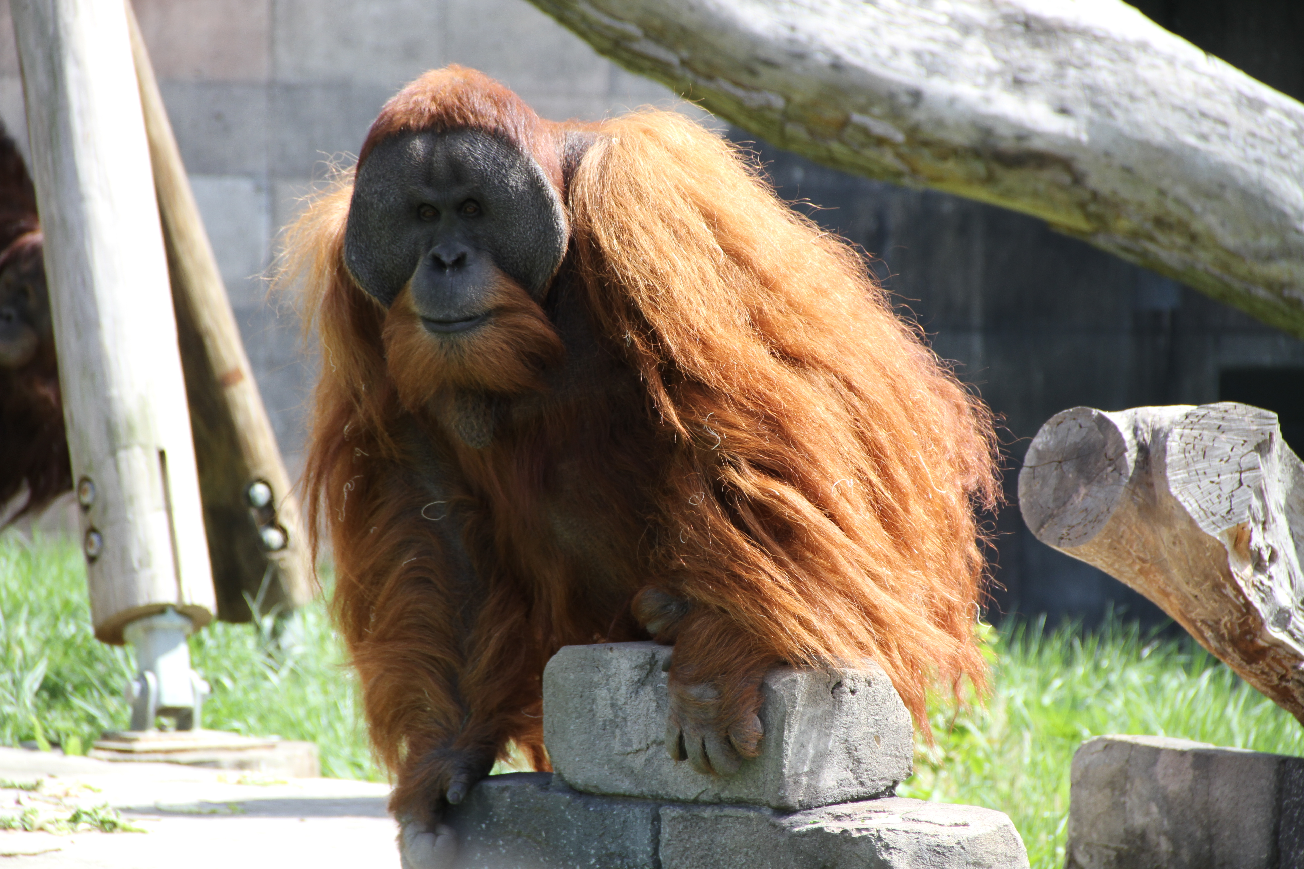 Orangutan at Columbus Zoo and Aquarium